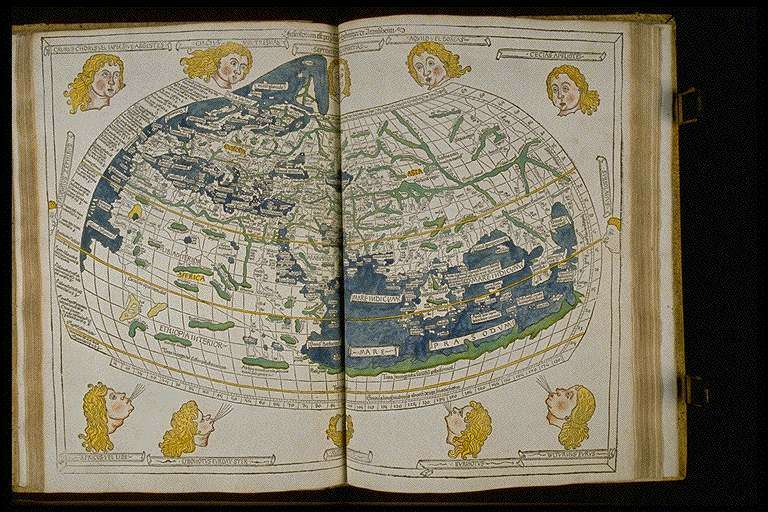 The world map from Leinhart Holle's 1482 edition of Nicolaus Germanus's emendations to Jacobus Angelus's 1406 Latin translation of Maximus Planudes's late-13th century rediscovered Greek manuscripts of Ptolemy's 2nd-century Geography.